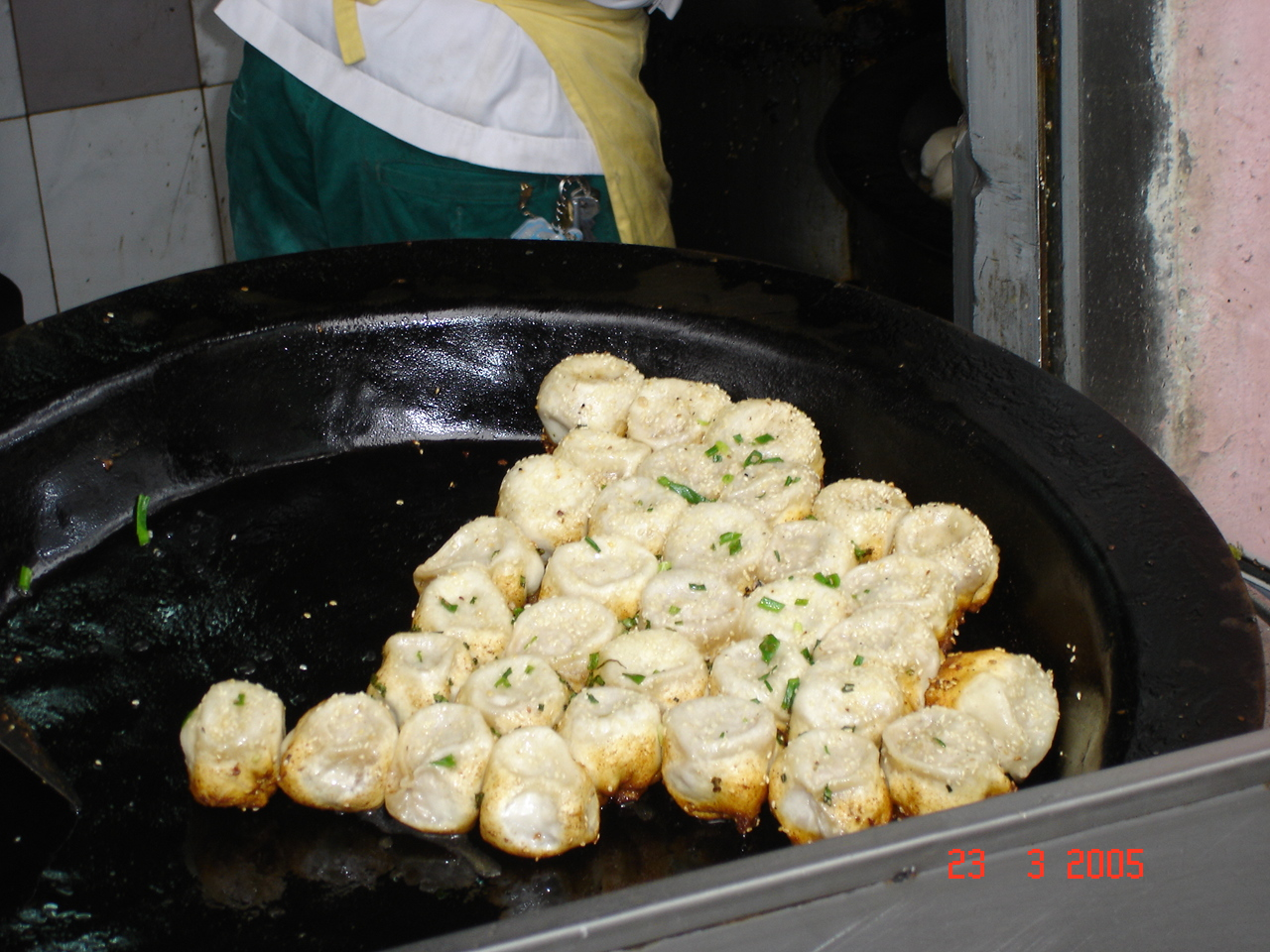 Shen Jian Bao, is Shang'hai'anese Street Food. A most delicious pan fried steam ...